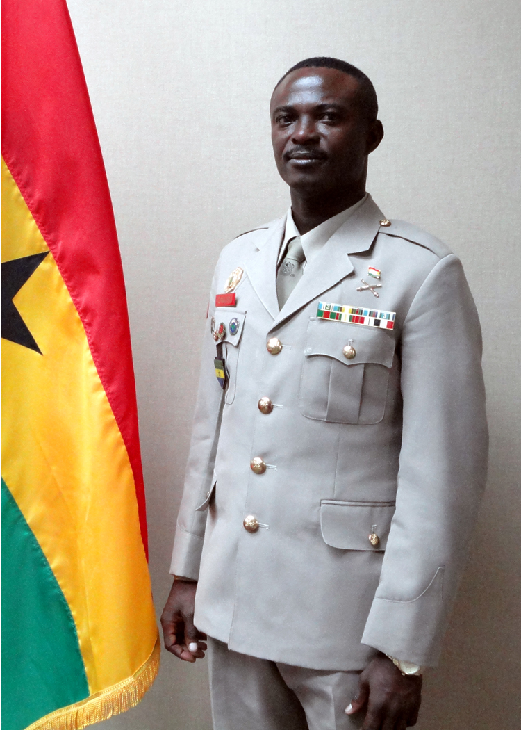 BGU (Border Guard Unit) Director: GAF (Ghana Armed Forces) Forces Sergeant Major of the Ghana Armed Forces Chief Warrant Officer, Dickson Owusu.